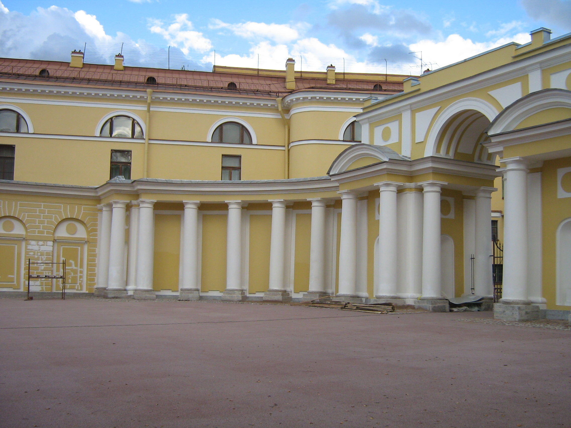 Saint Petersburg (Russia), Moika Palace or Yusupov Palace.